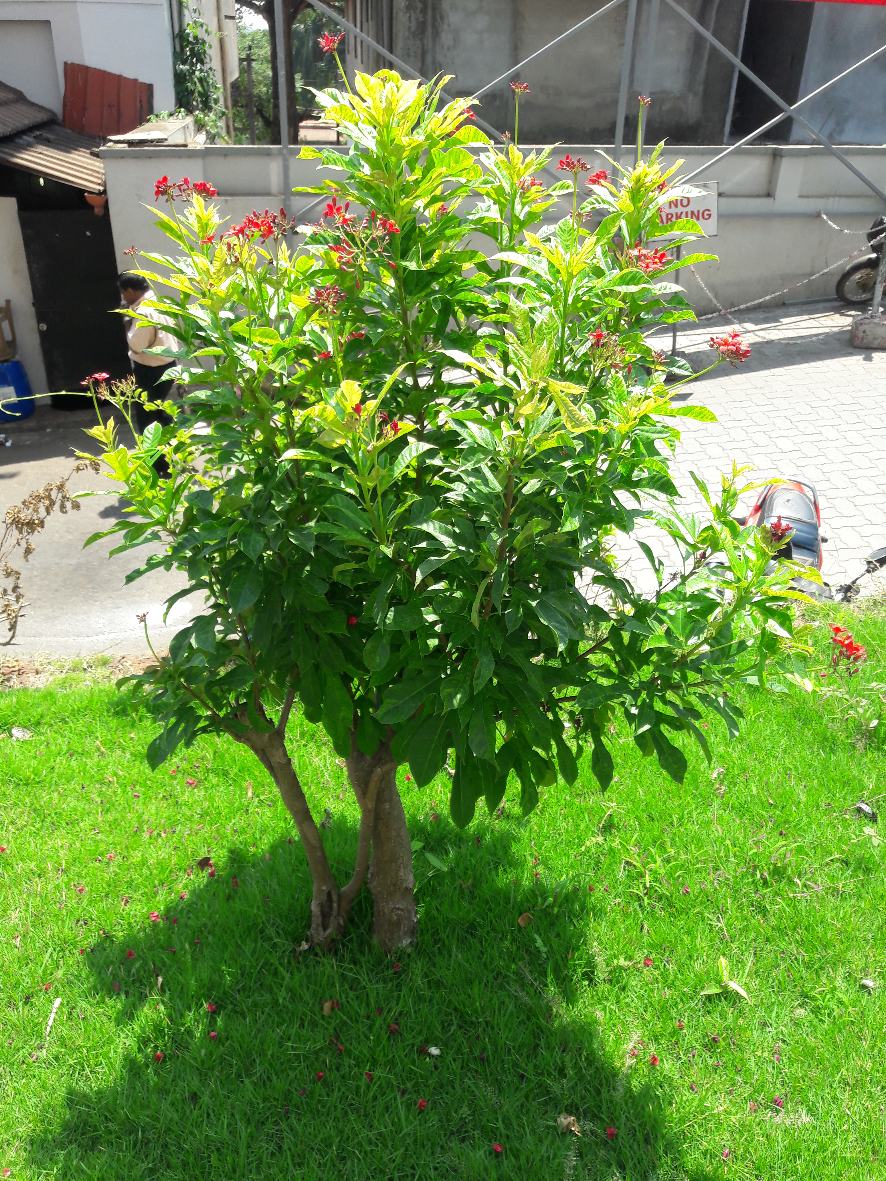 Jatropha plant